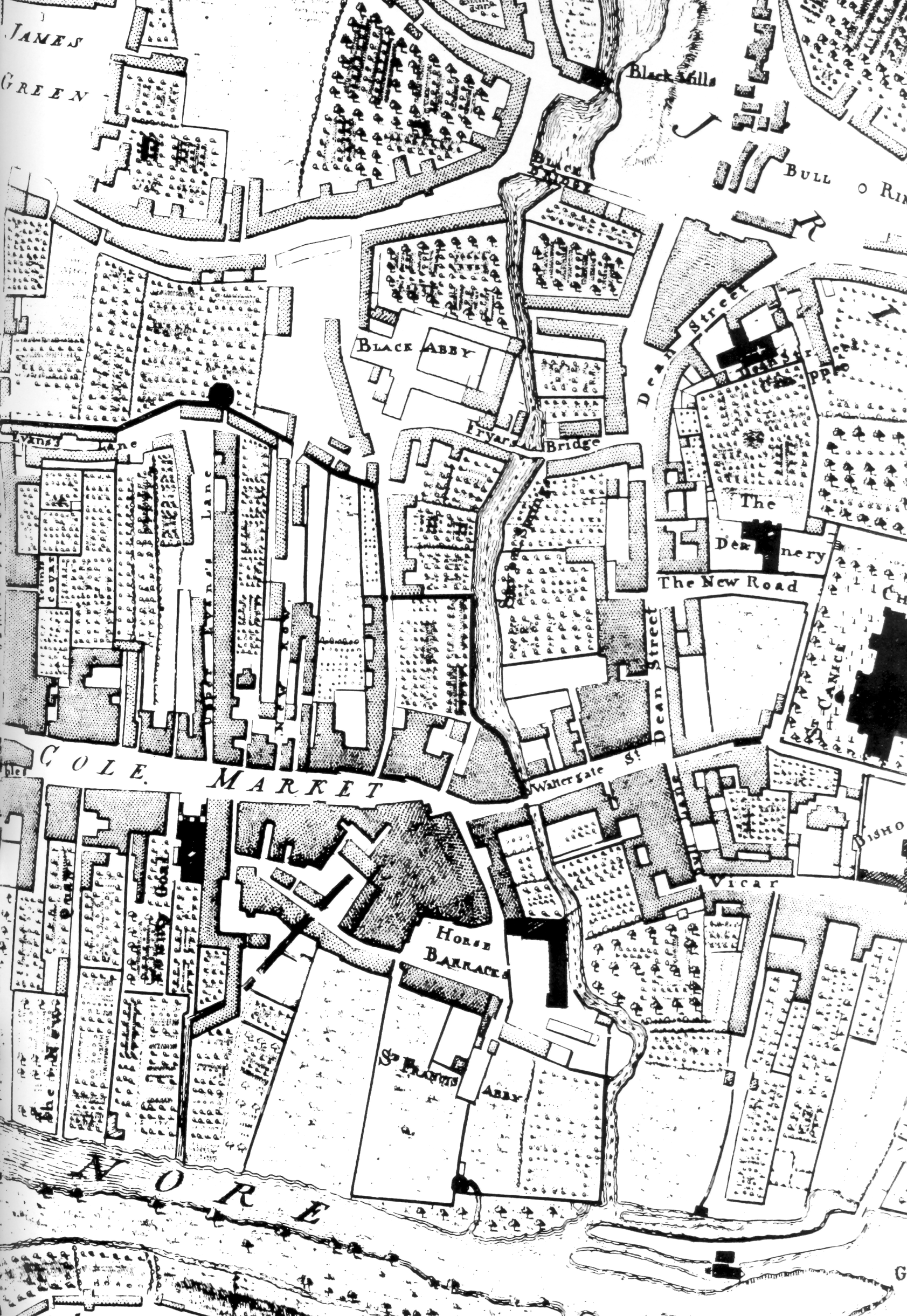 Plan of Black Abbey and its surroundings from 1758 in Kilkenny, Co. Kilkenny, Ireland.